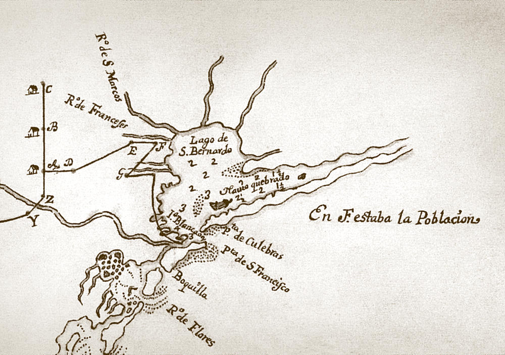 Inset of circa 1689 map showing La Belle shipwreck Navío Quebrado, or broken ship) in what was then known as San Bernardo Bay (now Matagorda Bay). This and other historic documents helped guide 20th-century archeologists to the location of La Belle. Drawn by Carlos de Sigüenza y Góngora, the map shows discoveries made by the De León expedition, one of nearly a dozen major expeditions mounted by the Spanish by land and sea to find the French "intruder," La Salle. Enlarge to see full map and location of French settlement, Fort St. Louis. Image courtesy of the Center for American History, University of Texas at Austin.